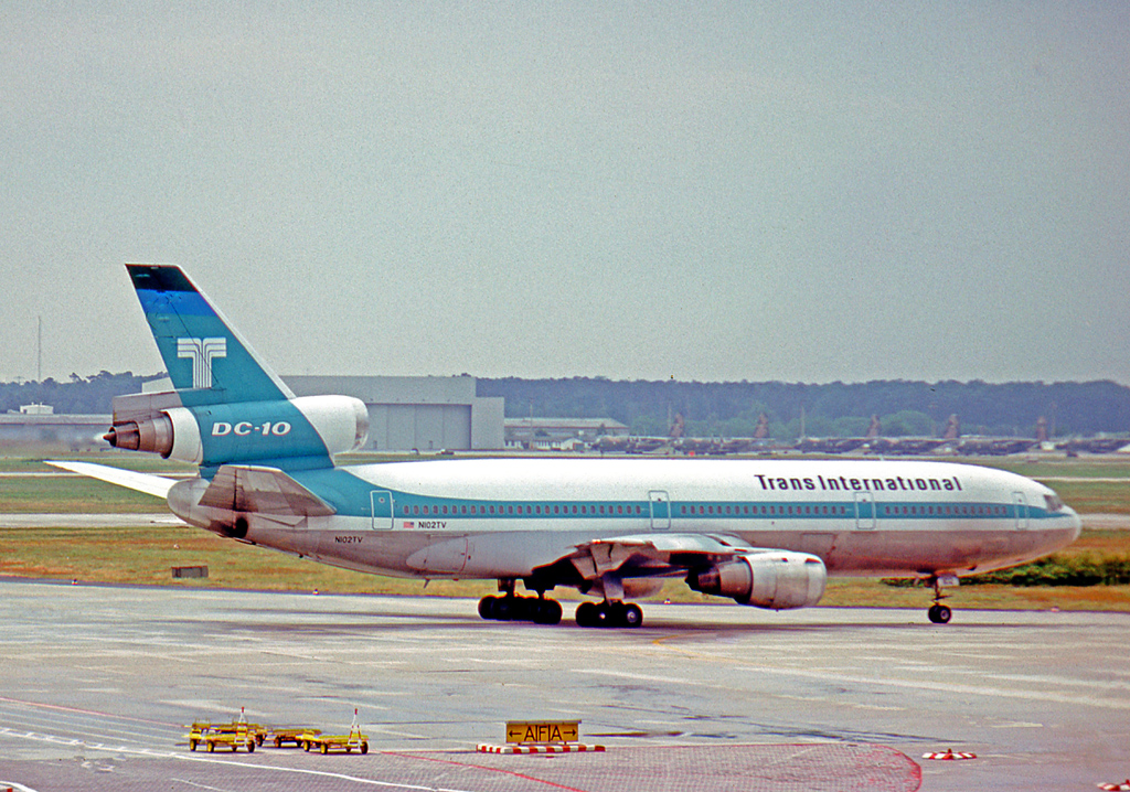 Douglas DC-10-30CF N102TV of Trans International Airlines at Frankfurt Airport in 1977